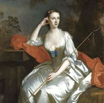 Crop of Portrait-Of-Lady-Jane-Douglas (died 1753) ,-Full-Length,-As-A-Shepherdess-Seated-In-A-Landscape by Allan Ramsay who died in 1784. est latest date of creation is year of her death